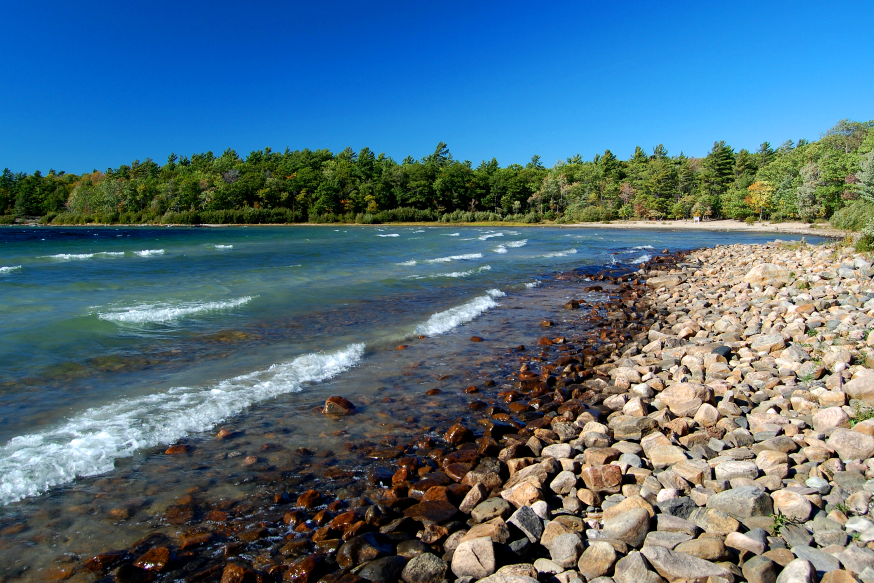 Rocky beach at Killbear Provincial Park in Ontario, Canada.